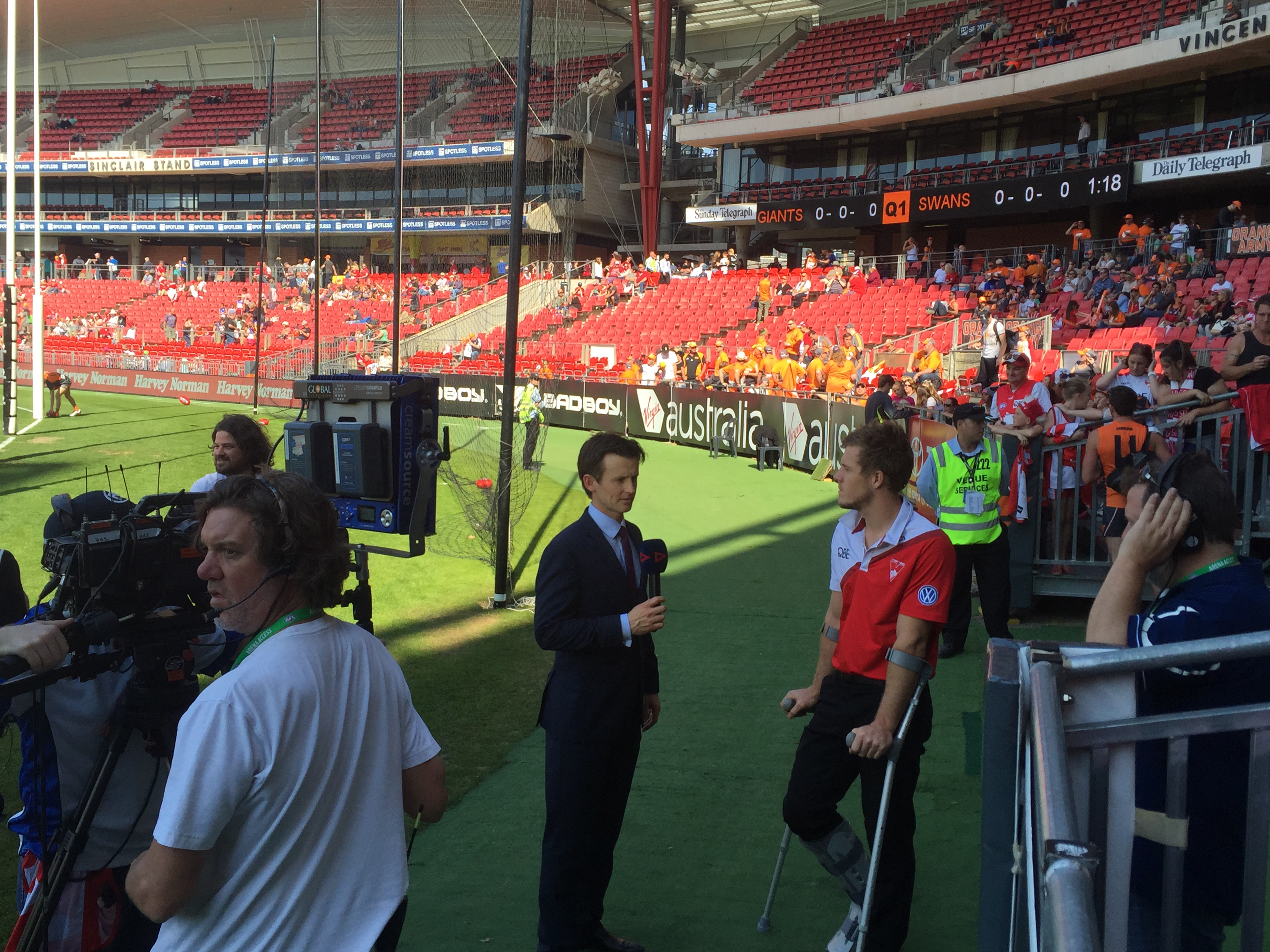 Fox Footy commentator Anthony Hudson interviewing Sydney Swans player Luke Parker.